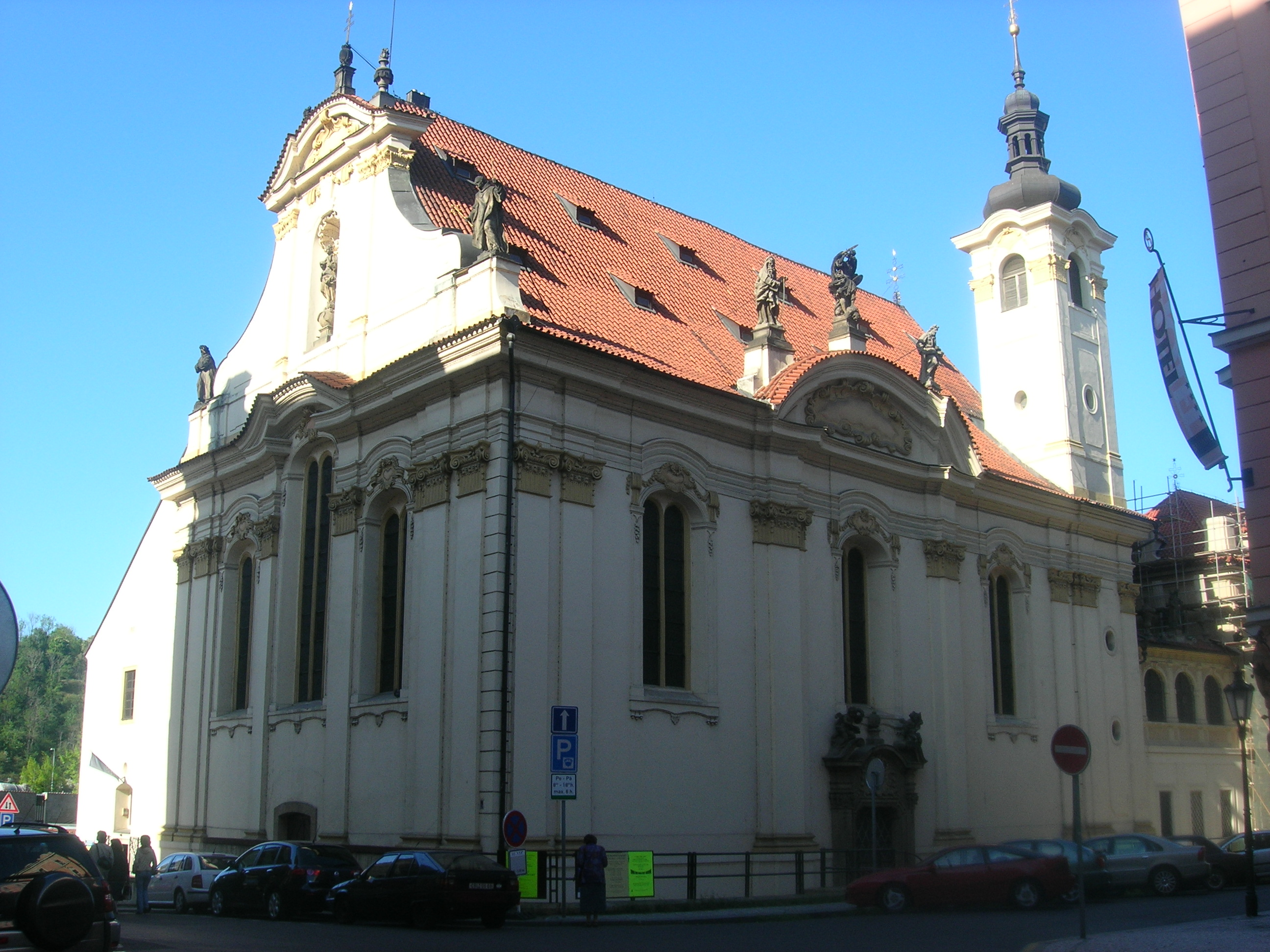 Church of SS Simon and Jude in the Old Town of Prague, Czech Republic